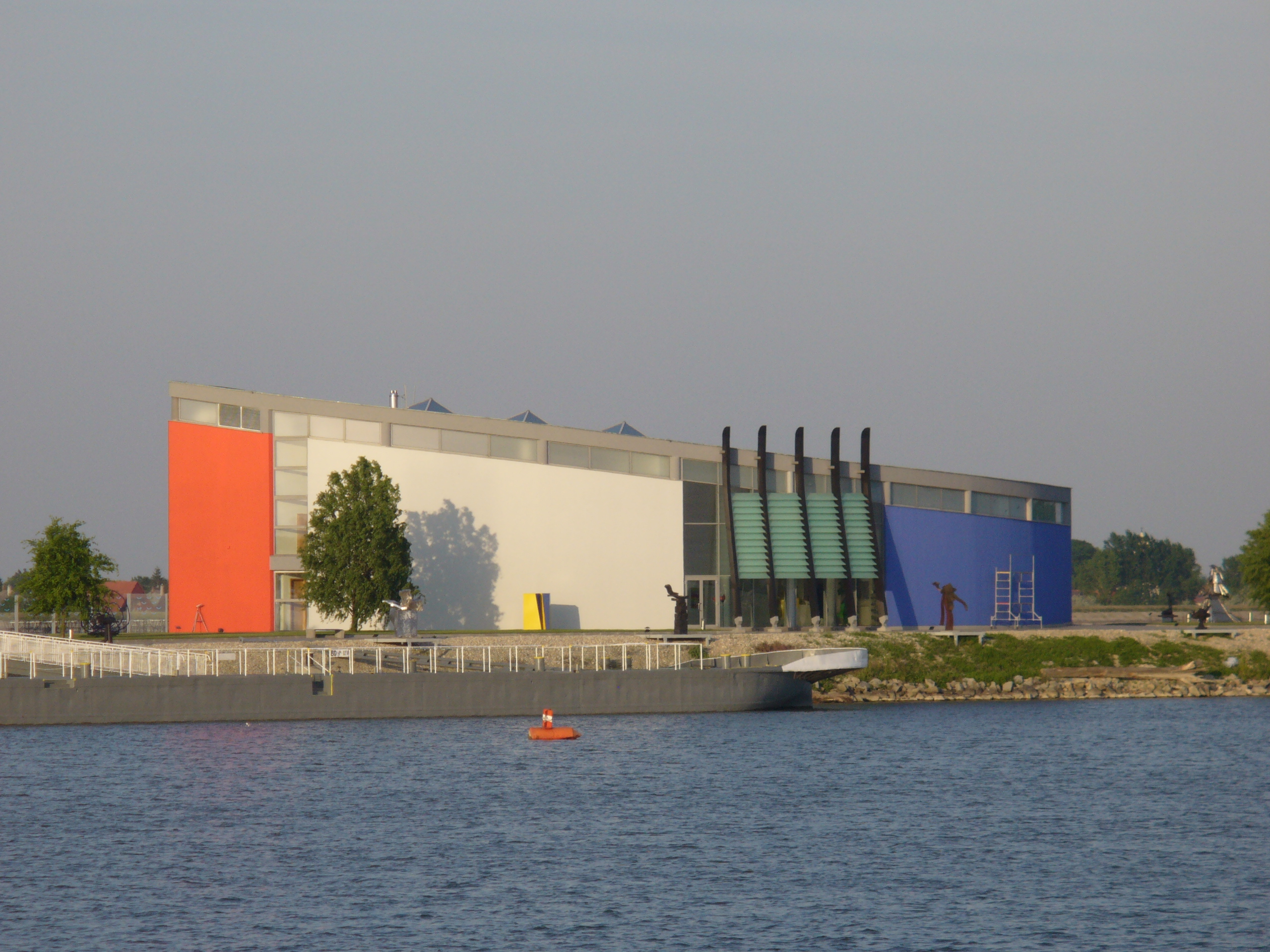 Danubiana Art Museum at the Čunovo waterworks, Bratislava, Slovakia